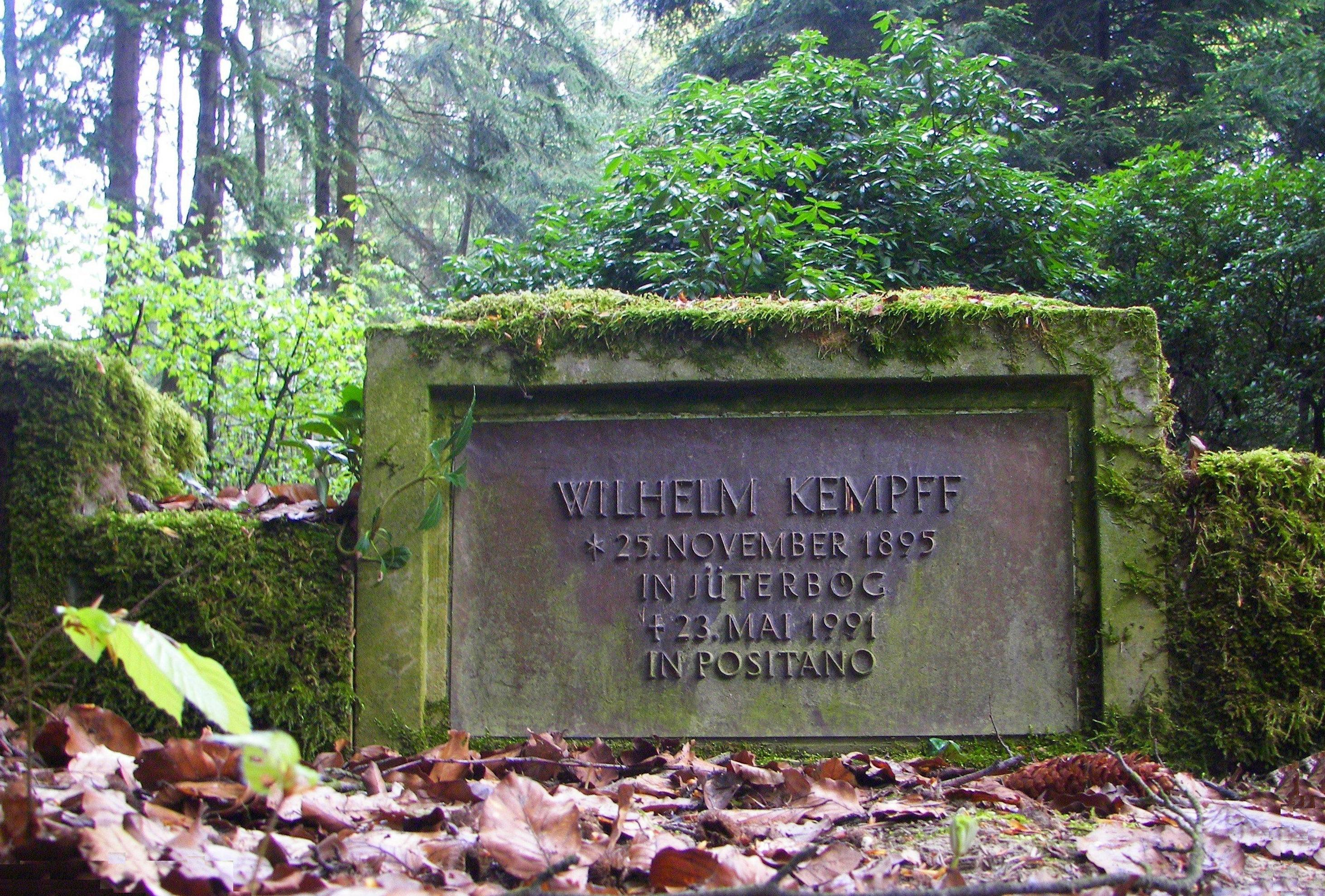 The grave of Wilhelm Kempff on the cemetery of Wernstein